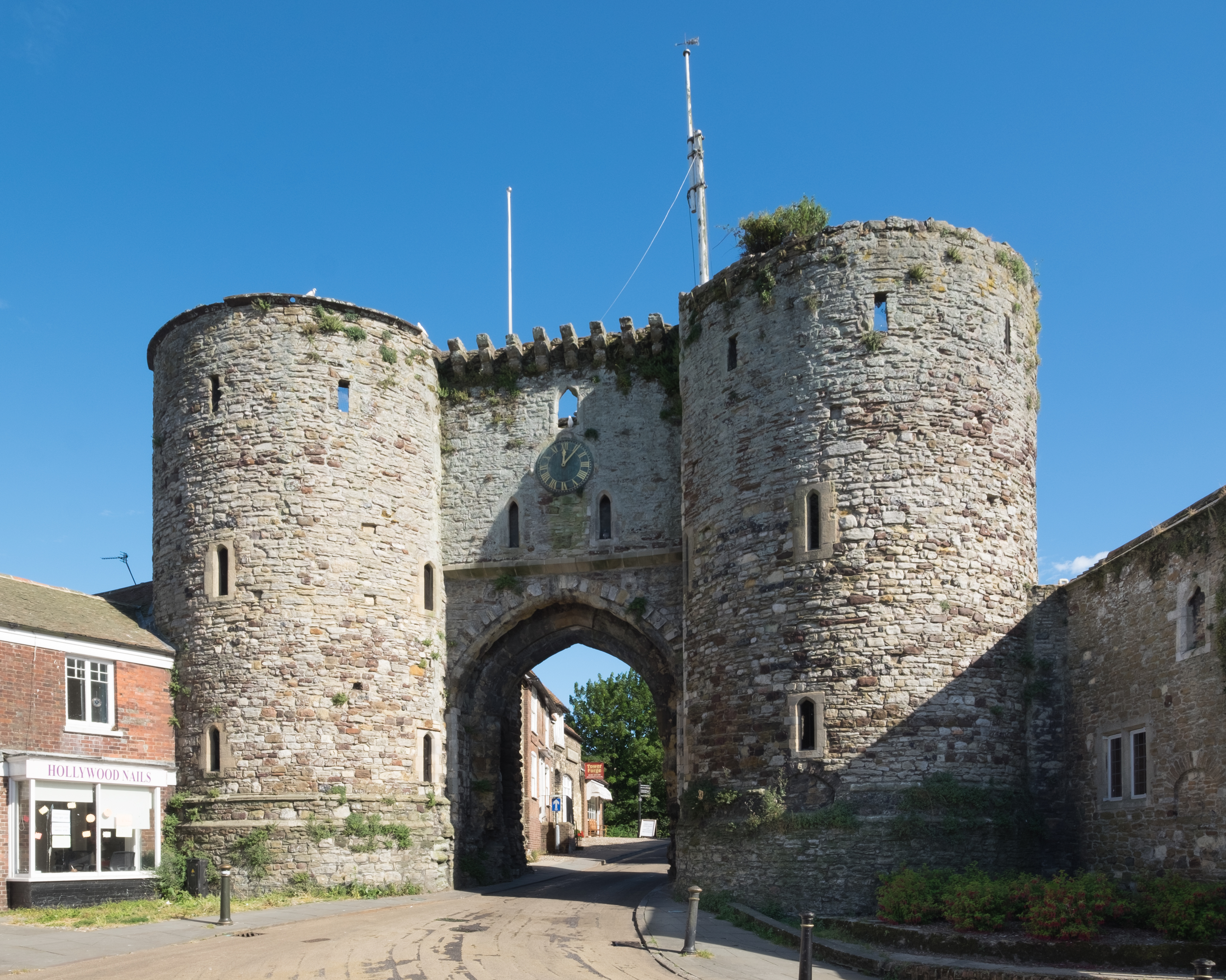 The Landgate, Rye, East Sussex. This 14th-century gatehouse is a grade I listed building in England.